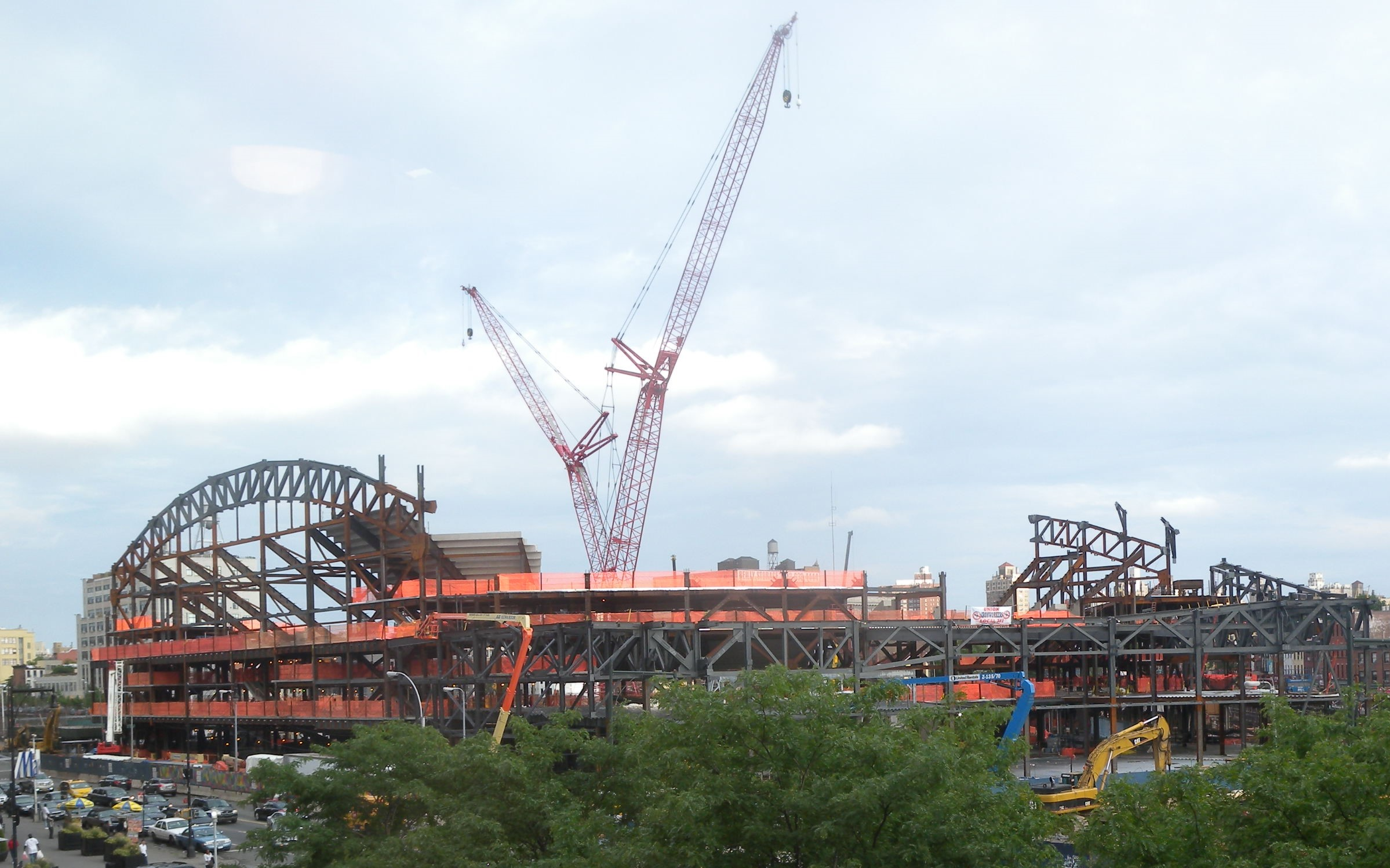 Looking east across Atlantic Avenue at construction on a partly cloudy afternoon.